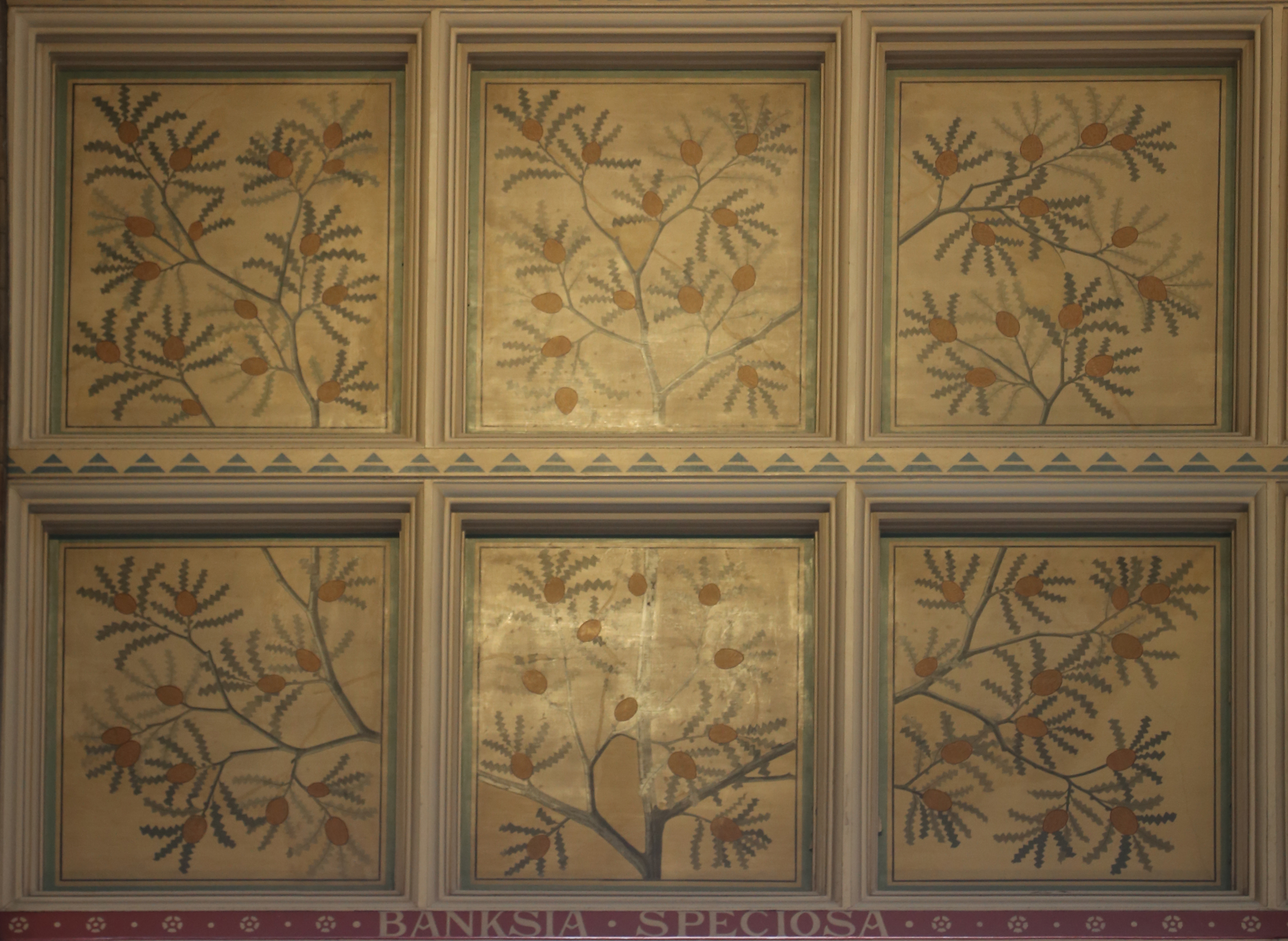 Banksia speciosa painting on the ceiling of the Natural History Museum, London